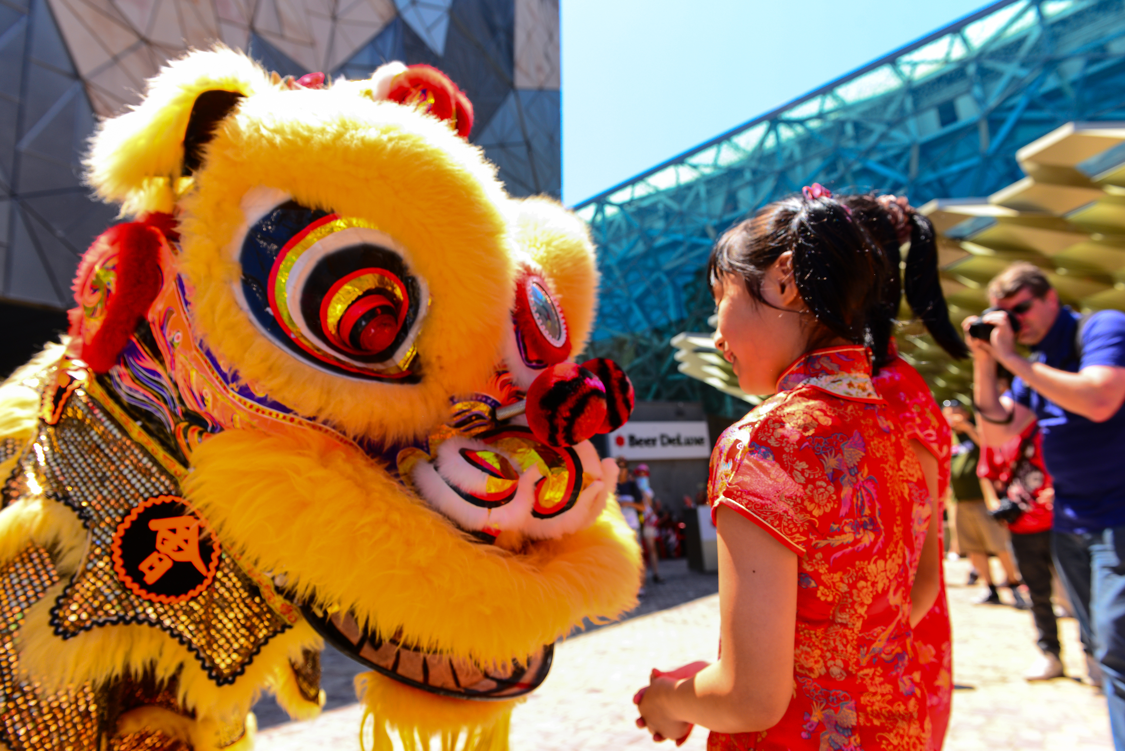 Chinese Lunar New Year 2014